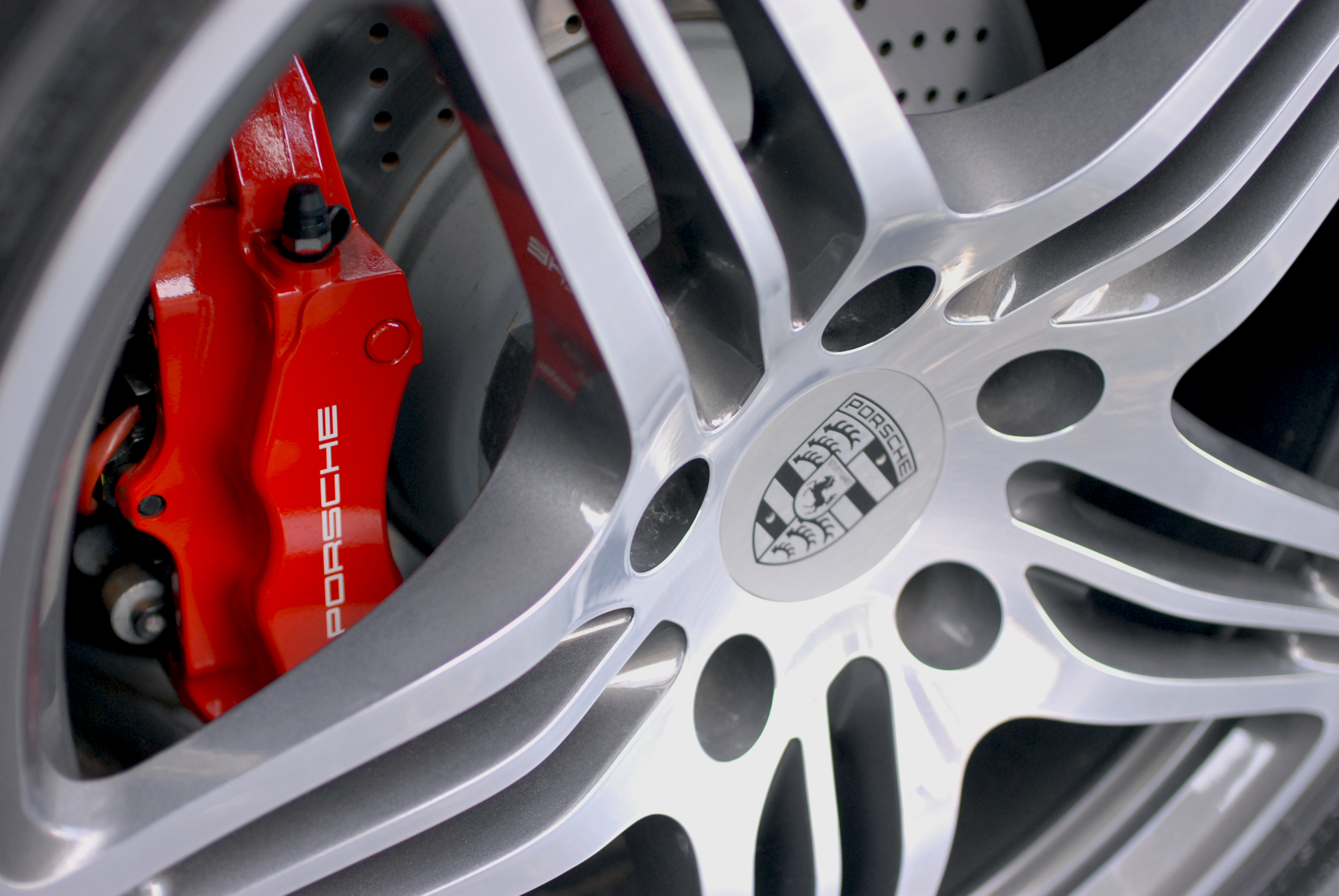 Porsche_911_(997)_Carrera_4S_Wheel